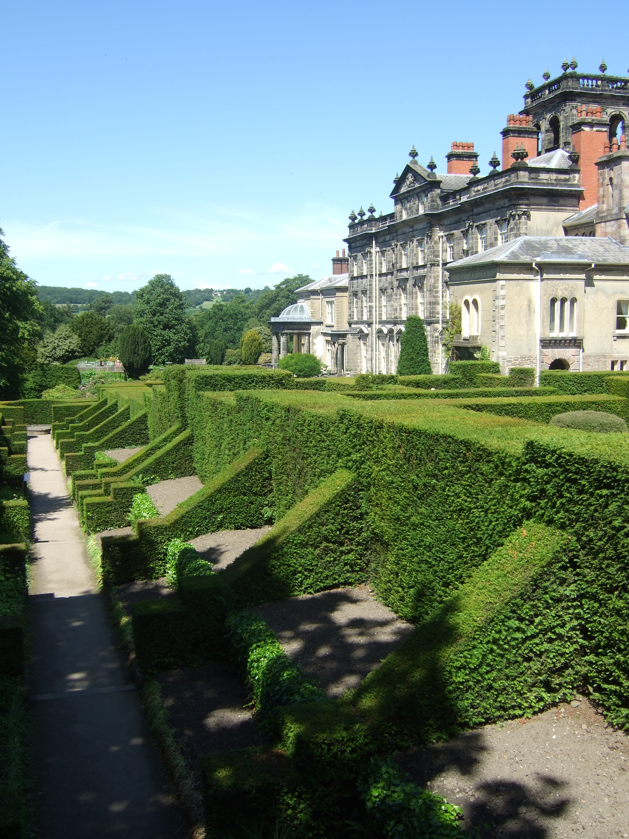 Biddulph Grange gardens in Biddulph, Staffordshire, England